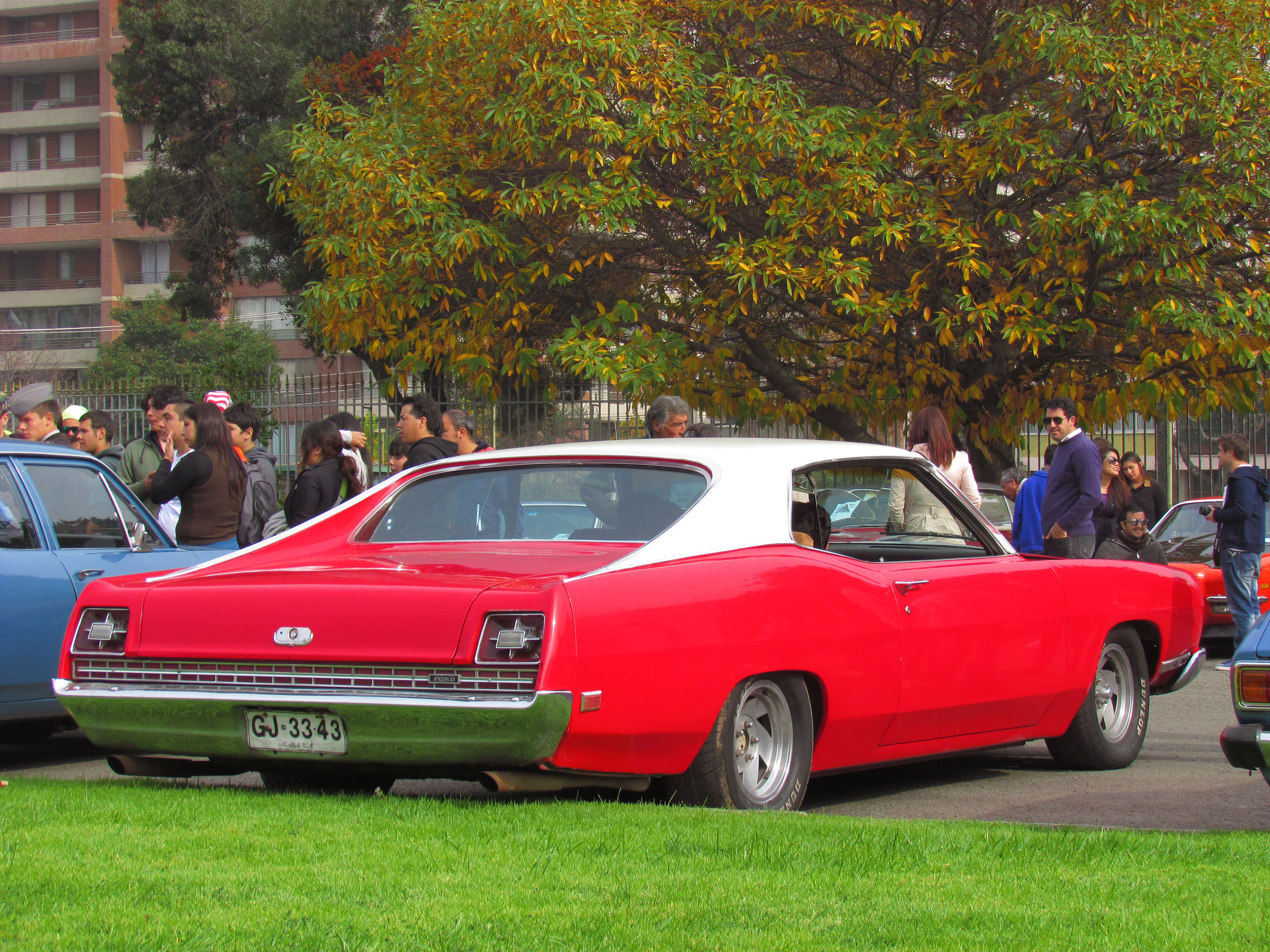 1969 Ford XL SportsRoof